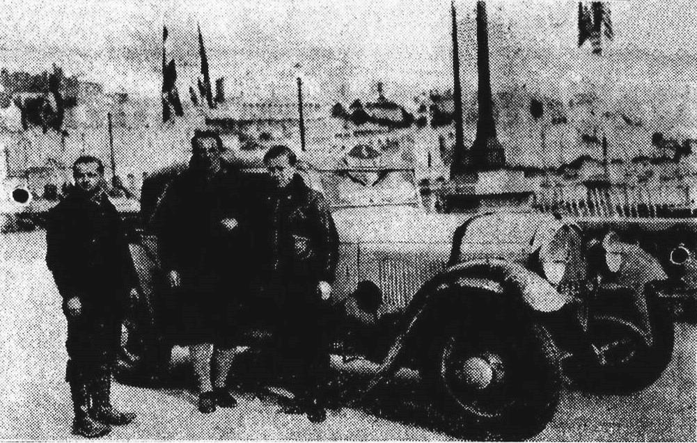 Entry #4 in the 1934 Rallye Monte Carlo is a Hotchiss AM 80 S 3,485 ccm (license "9683 RT"), driven by Louis Gas (left in picture) and Jean Trévoux (in the middle). They had started in Athens[1] and were also the winner this year!